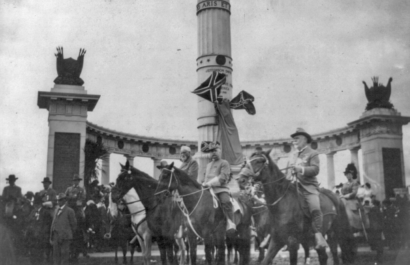 Cropped and contrast-enhanced by Hal Jespersen. TITLE: [George Washington Custis Lee, 1832-1913, on horseback, with staff reviewing Confederate Reunion Parade in Richmond, Va., June 3, 1907, in front of monument to Jefferson Davis] CALL NUMBER: BIOG FILE [item] [P&P] REPRODUCTION NUMBER: LC-USZ62-58277 (b&w film copy neg.) No known restrictions on publication. MEDIUM: 1 photographic print. CREATED/PUBLISHED: c1907 June 20. NOTES: H95373 U.S. Copyright Office. Photo by Edyth Carter Beveridge. This record contains unverified, old data from caption card. Caption card tracings: Veterans; Photog. Index; Civil War--Confederacy; BI--MONUMENTS...; Va.--Richmond; BI; Shelf. REPOSITORY: Library of Congress Prints and Photographs Division Washington, D.C. 20540 USA DIGITAL ID: (digital file from b&w film copy neg.) cph 3b06088 CARD #: 2005692151